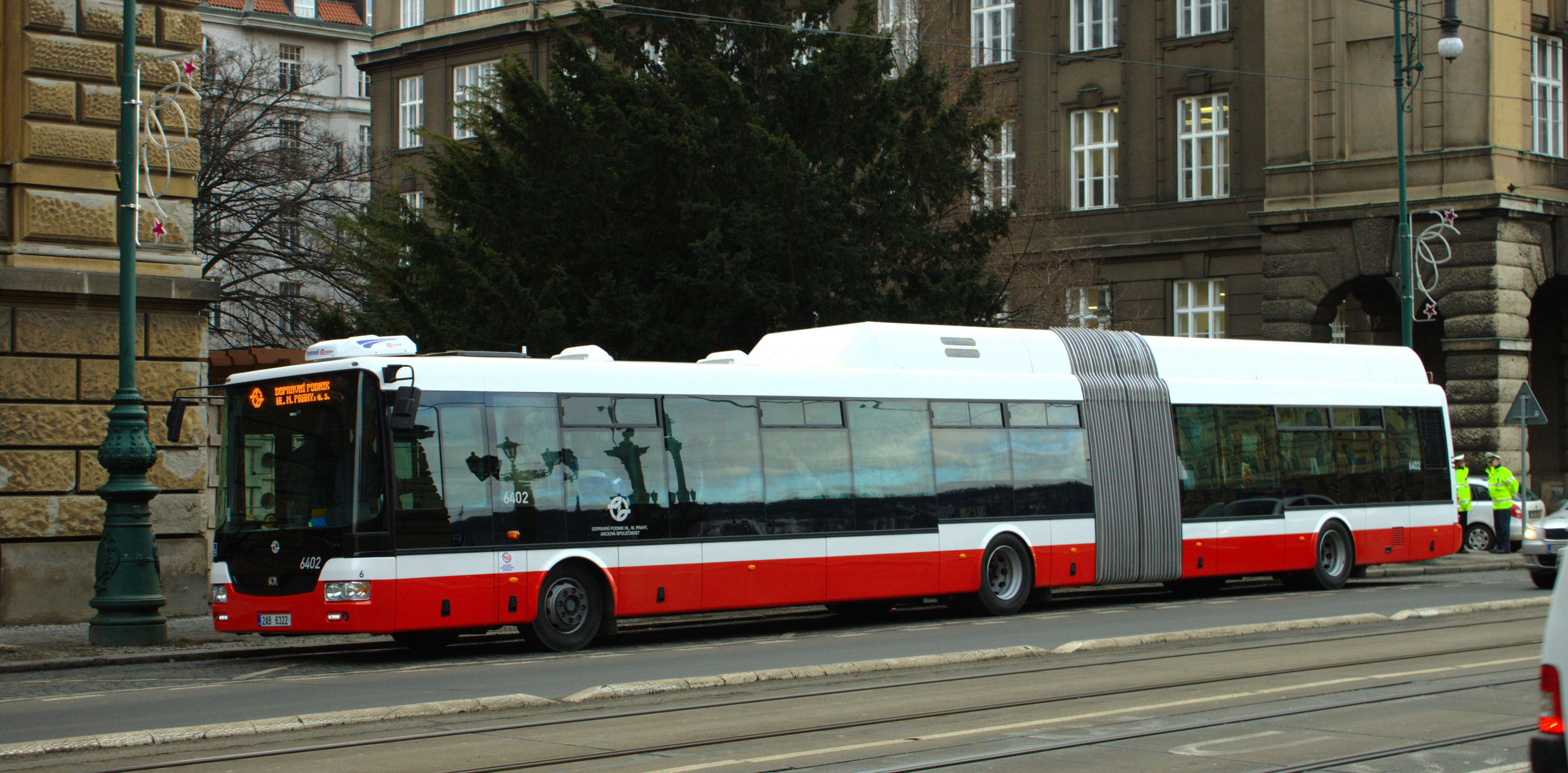 SOR NBH 18 bus in Prague, Staroměstská bus terminus in January 2011